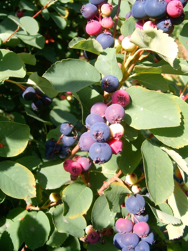 Amelanchier_ovalis, june 2009, Brno Žabovřesky, ZŠ náměstí Svornosti